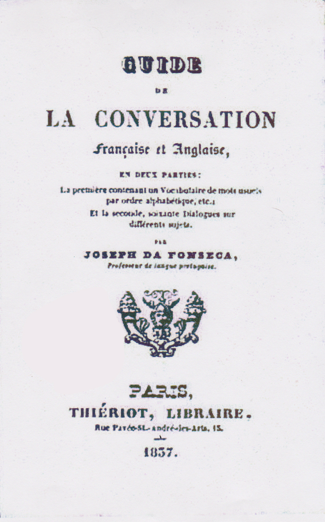 Title page